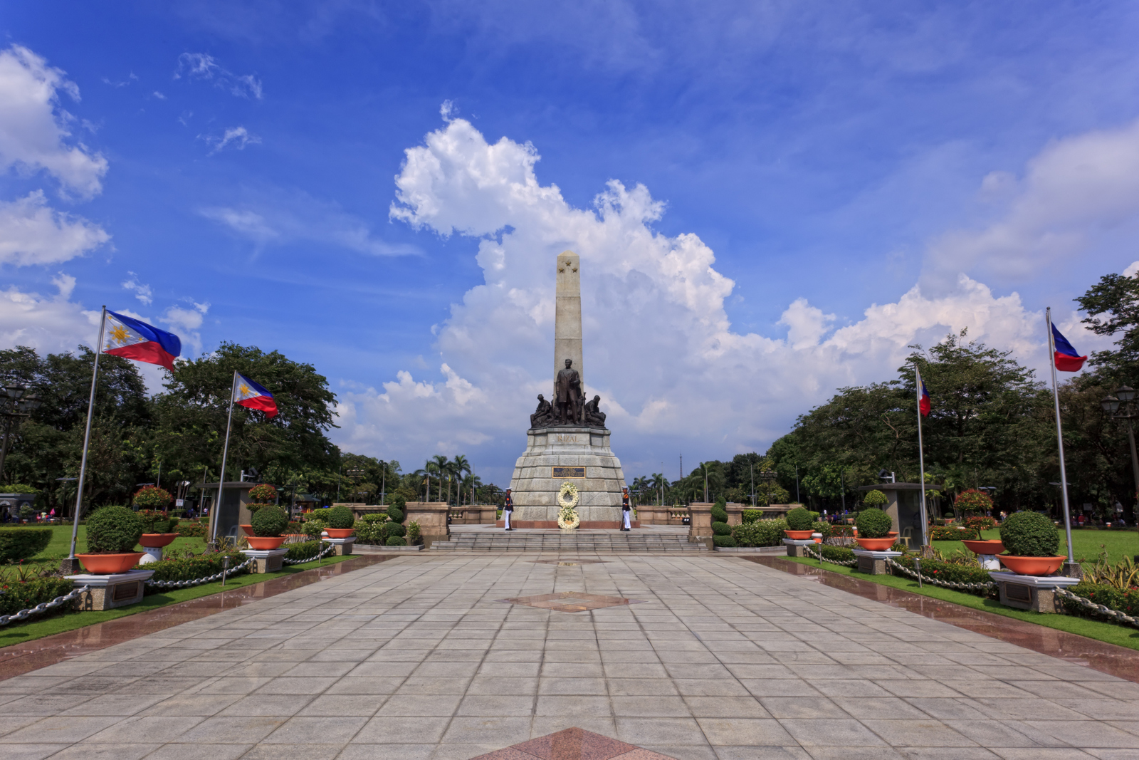 A shot of Luneta - Rizal Monument